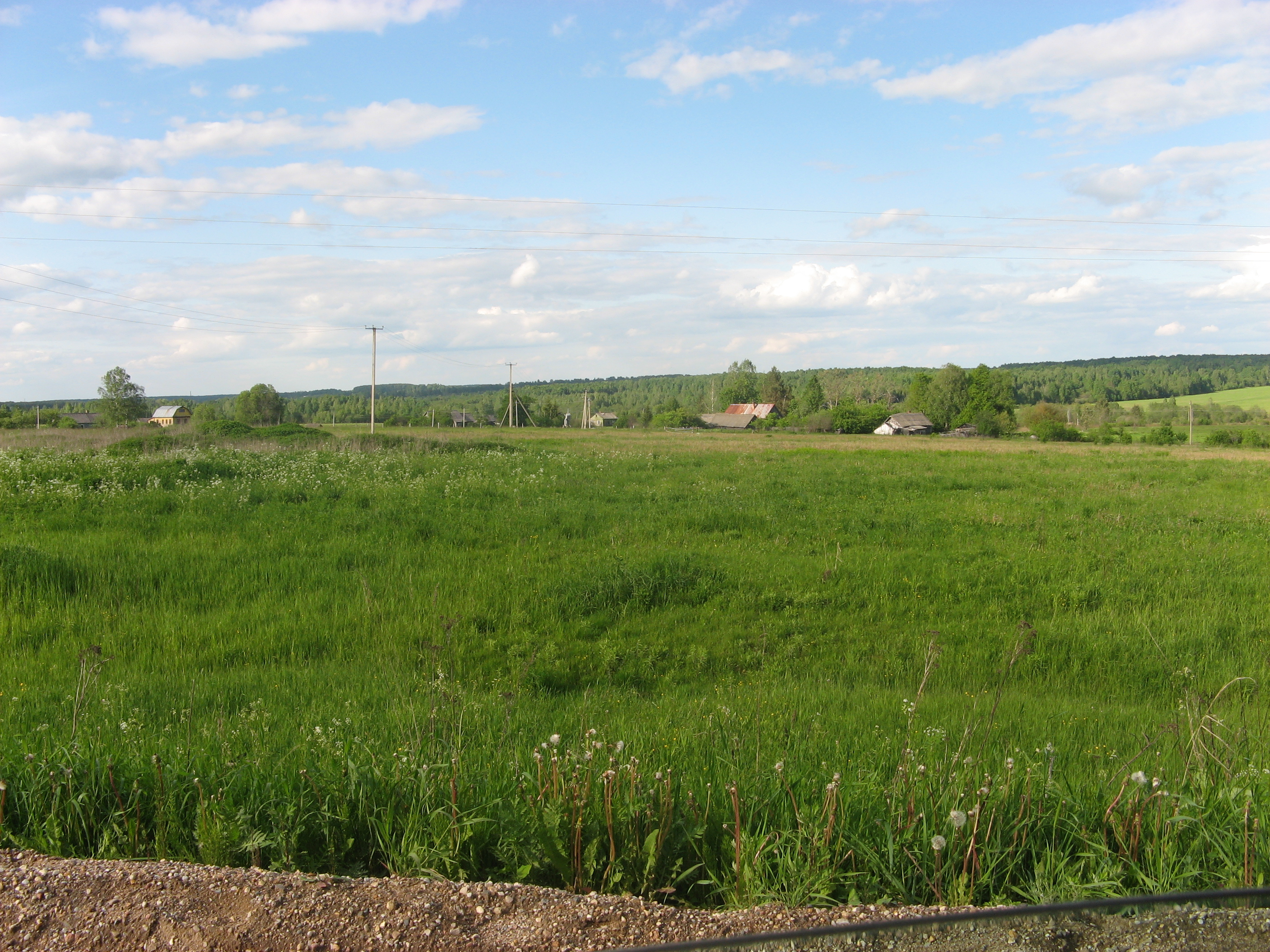 Village Chelm in Safonovo District